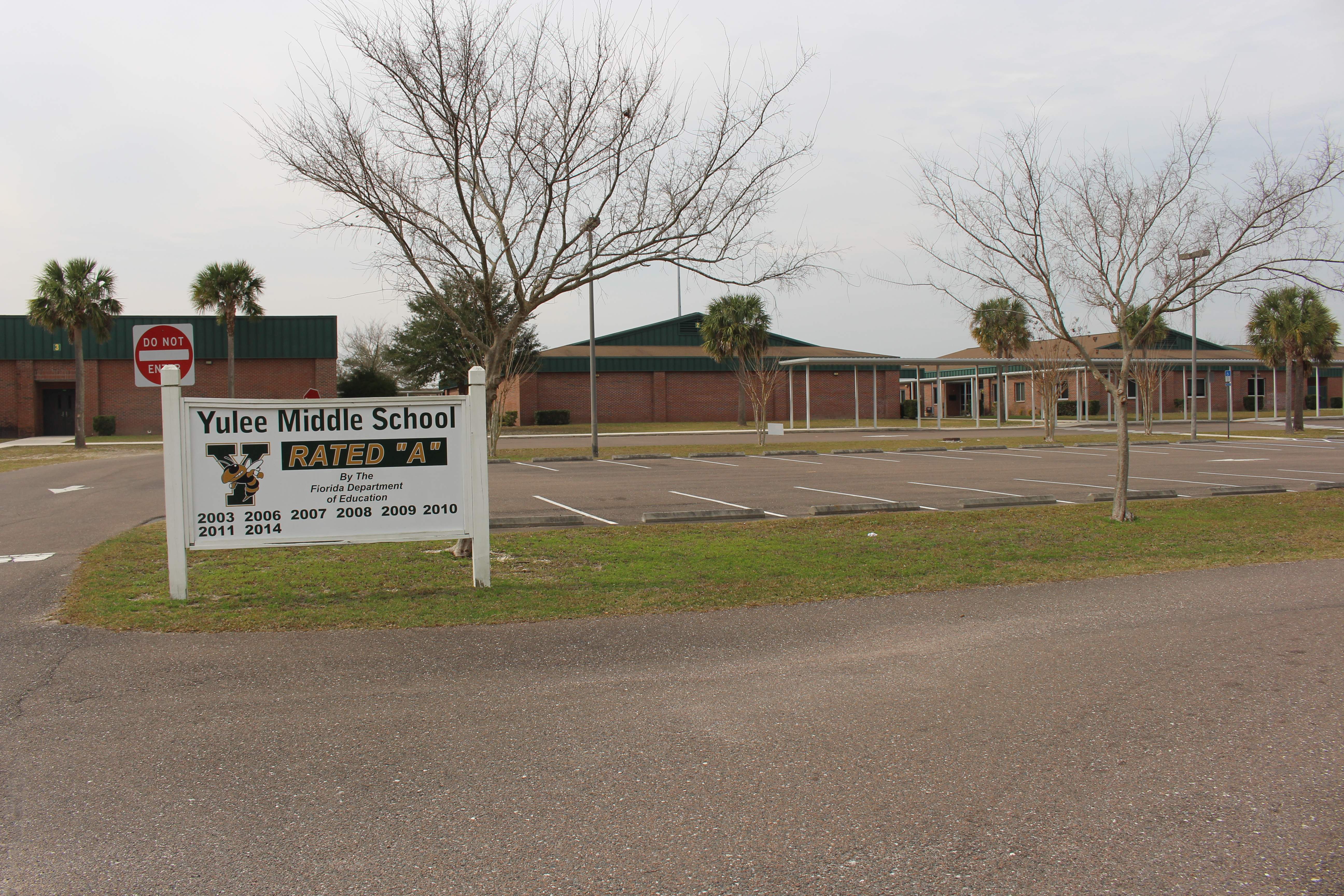 Yulee Middle School, 85439 Miner Road, Yulee, Nassau County, Florida